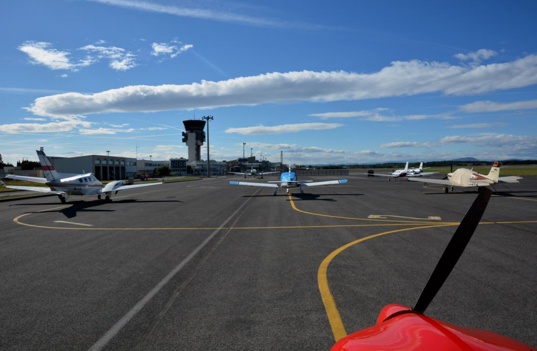 Montpellier airport - tarmac